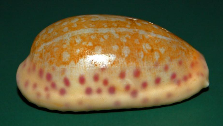 Ovatipsa chinensis variolaria